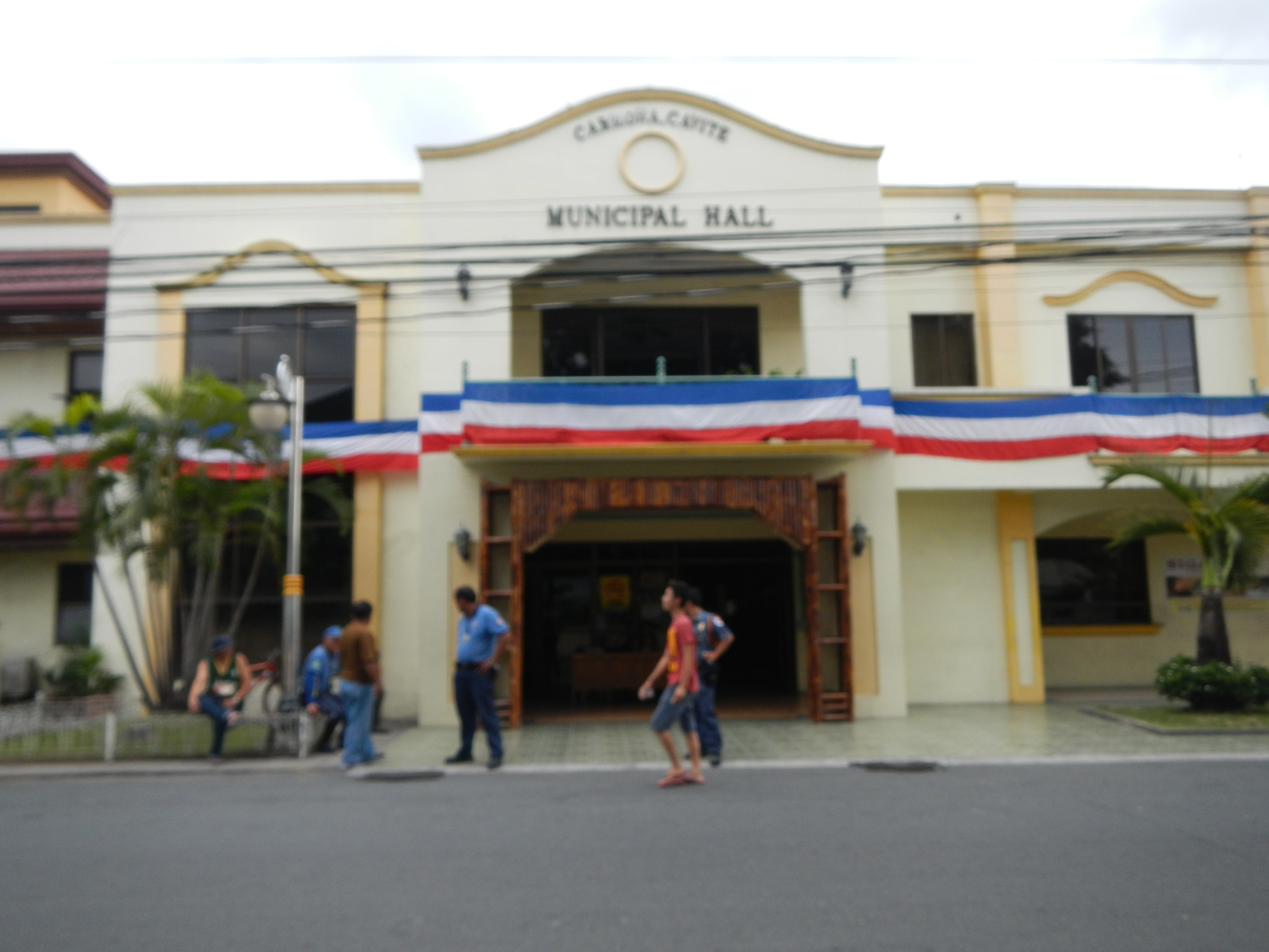 Hon. Marciano Mapanoo Park (Carmona Town Plaza) [1] Coordinates: 14°18'47"N 121°3'27"E [2] 14° 18' 49.10" N 121° 3' 26.02" E [3] [4] & Carmona Municipal Hall [5] U.M. Loyola Street Coordinates: 14°18'49"N 121°3'26"E Carmona, Cavite [6] Coordinates: 14°18'4"N 121°2'21"E[7] The Municipality of Carmona (Filipino: Bayan ng Carmona) is a first class urban municipality in the province of Cavite, Philippines. According to the 2010 census, it has a population of 74,986 people in a land area of 30.92 square kilometres (11.94 sq mi). ---------[N.B. June 7, 1st Friday, 2013 Photography of - From Bulacan at 9:05 a.m., I took photo of Dasmariñas [8] City at 12:49 pm, the Aguinaldo Highway, then, at 3:35 pm, I took photo of Carmona, Cavite [9] - I finished San Lazaro Carmona Race Track, Carmona Welcome Arch and Binan Laguna Welcome Arch and Araneta Coliseum Quezon City at 8:31 p.m. and started uploading via slow internet next day June 8, 2013 at 6:59 pm - I hereby certify that these rarest, raw, original and unedited photos are exclusive for Commons and Wikipedia never uploaded in any Internet or any site, and for the public domain without any condition.]